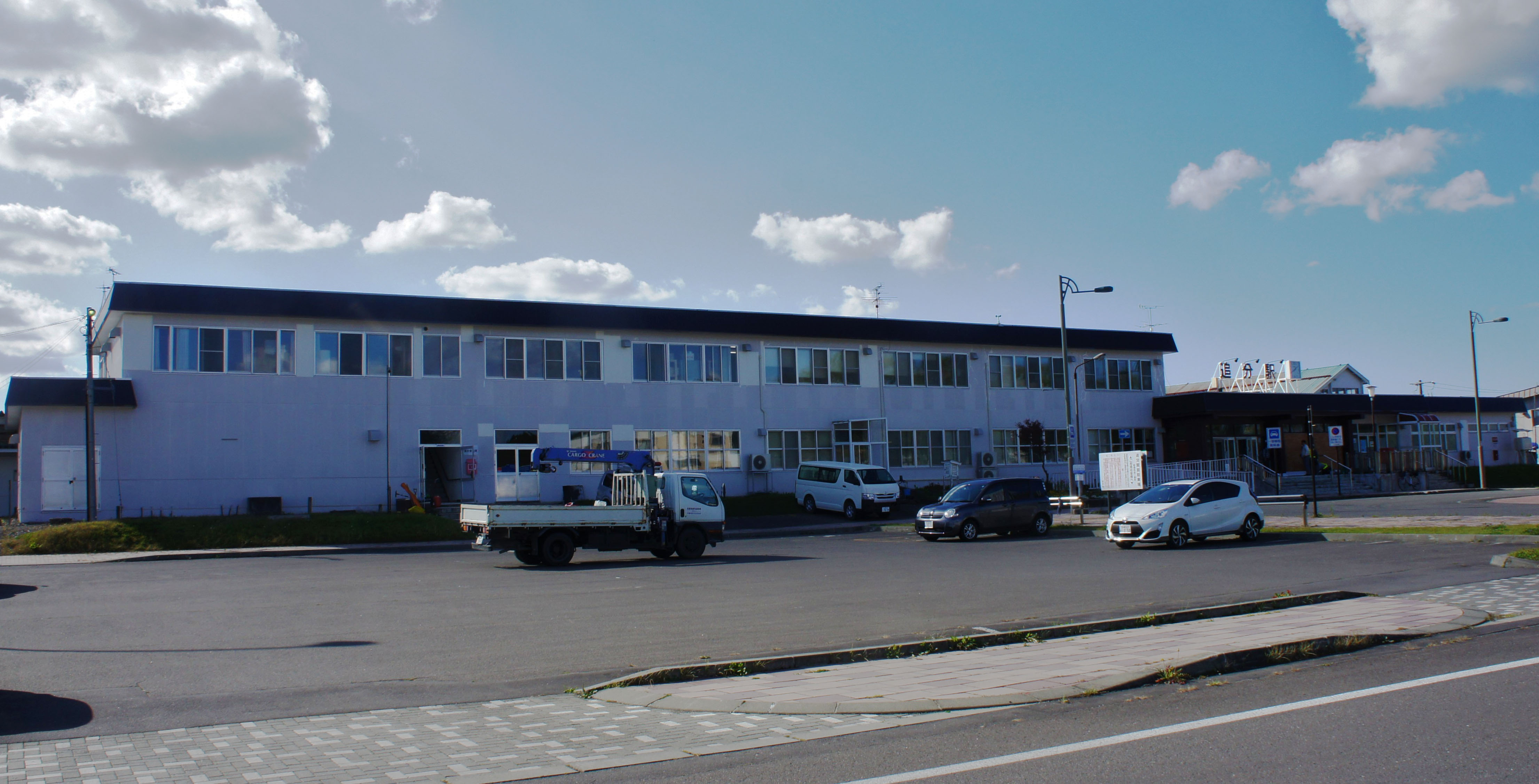 Station building of JR Muroran-Main-Line/Sekisho-Line Oiwake Station